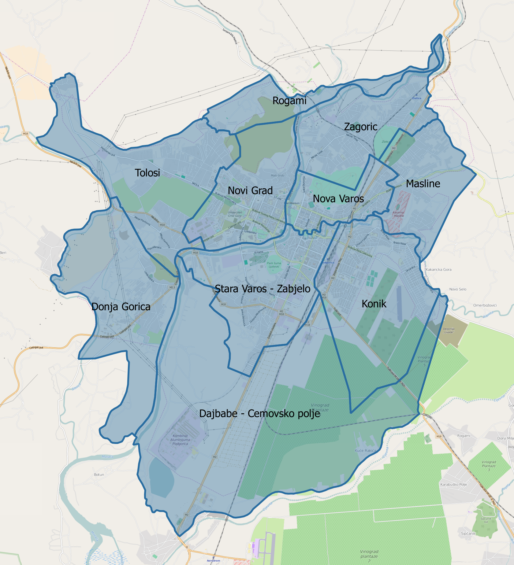 Planning zones of Podgorica city proper, Montenegro. Open Street Map open source maps have been used as background, while borders of the zones were drawn according to official local government paper